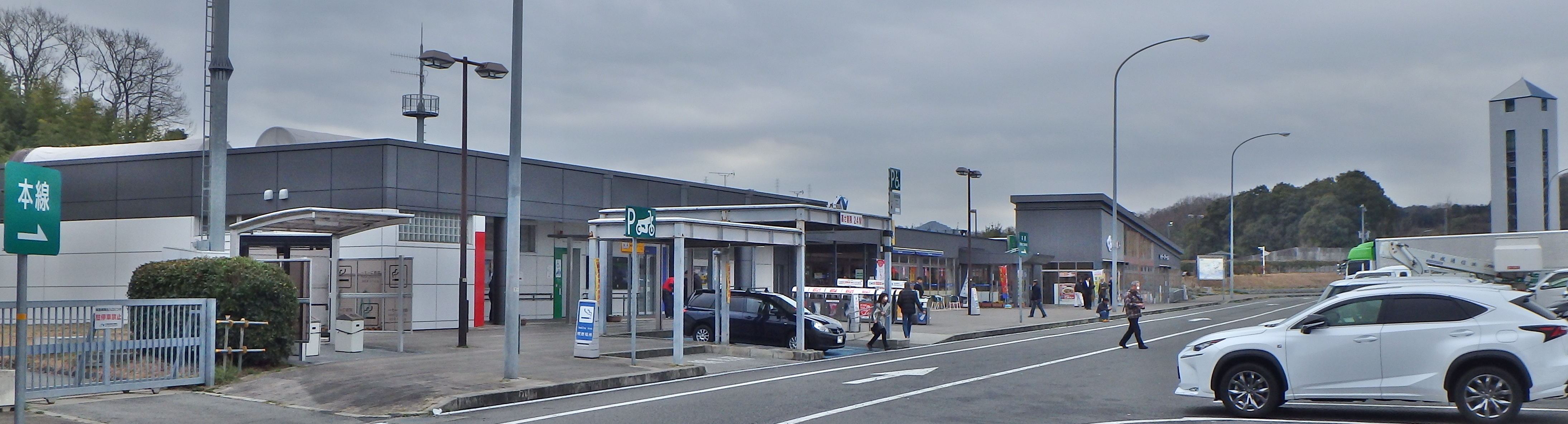 Ogo Parking Area for Okayama, Hyogo prefecture,Japan